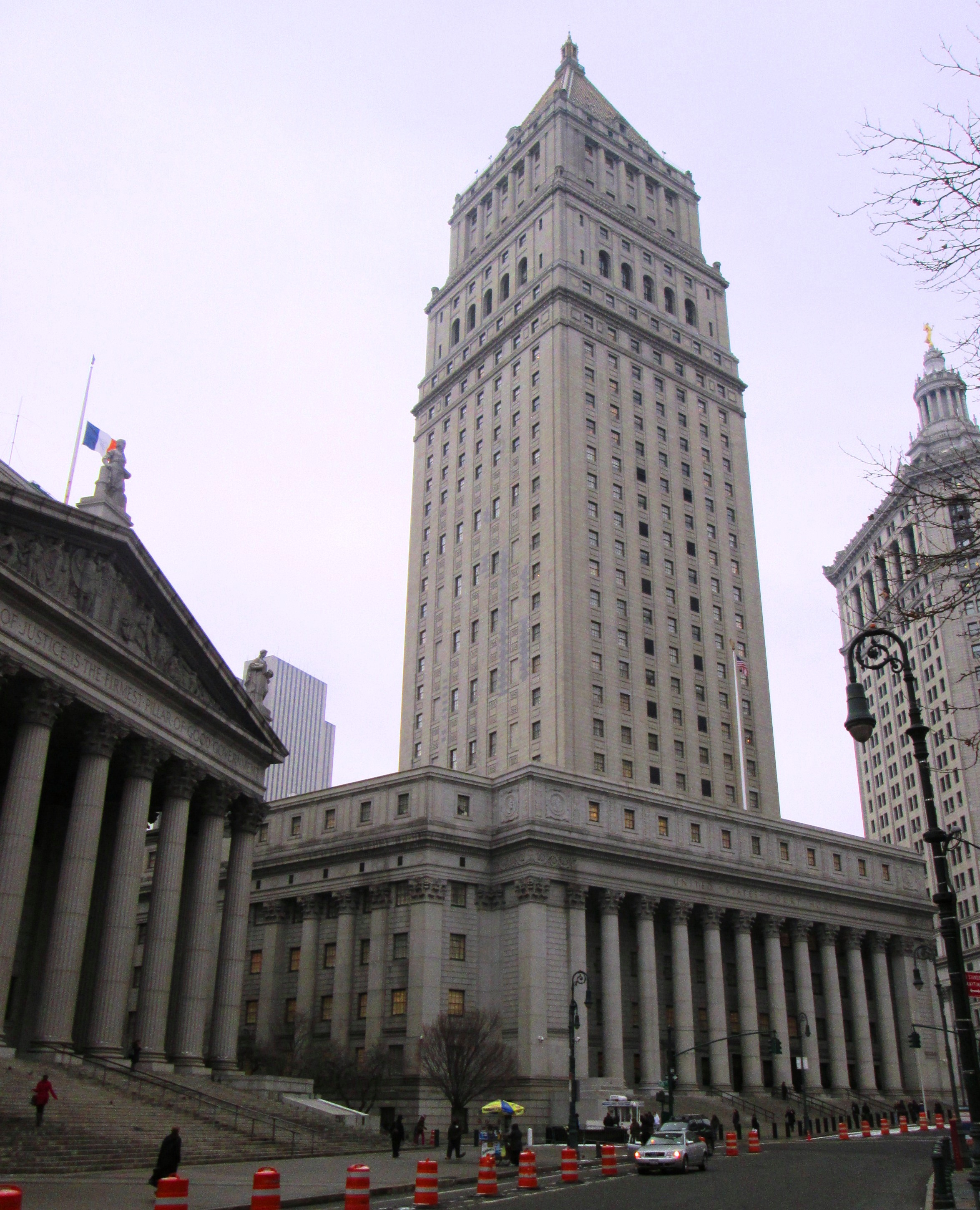 The New York State Supreme Court courthouse at 60 Centre Street (left) and the Thurgood Marshall United States Courthouse at 40 Centre Street (right) on Foley Square. On the right a bit of the Municipal Building can be seen.